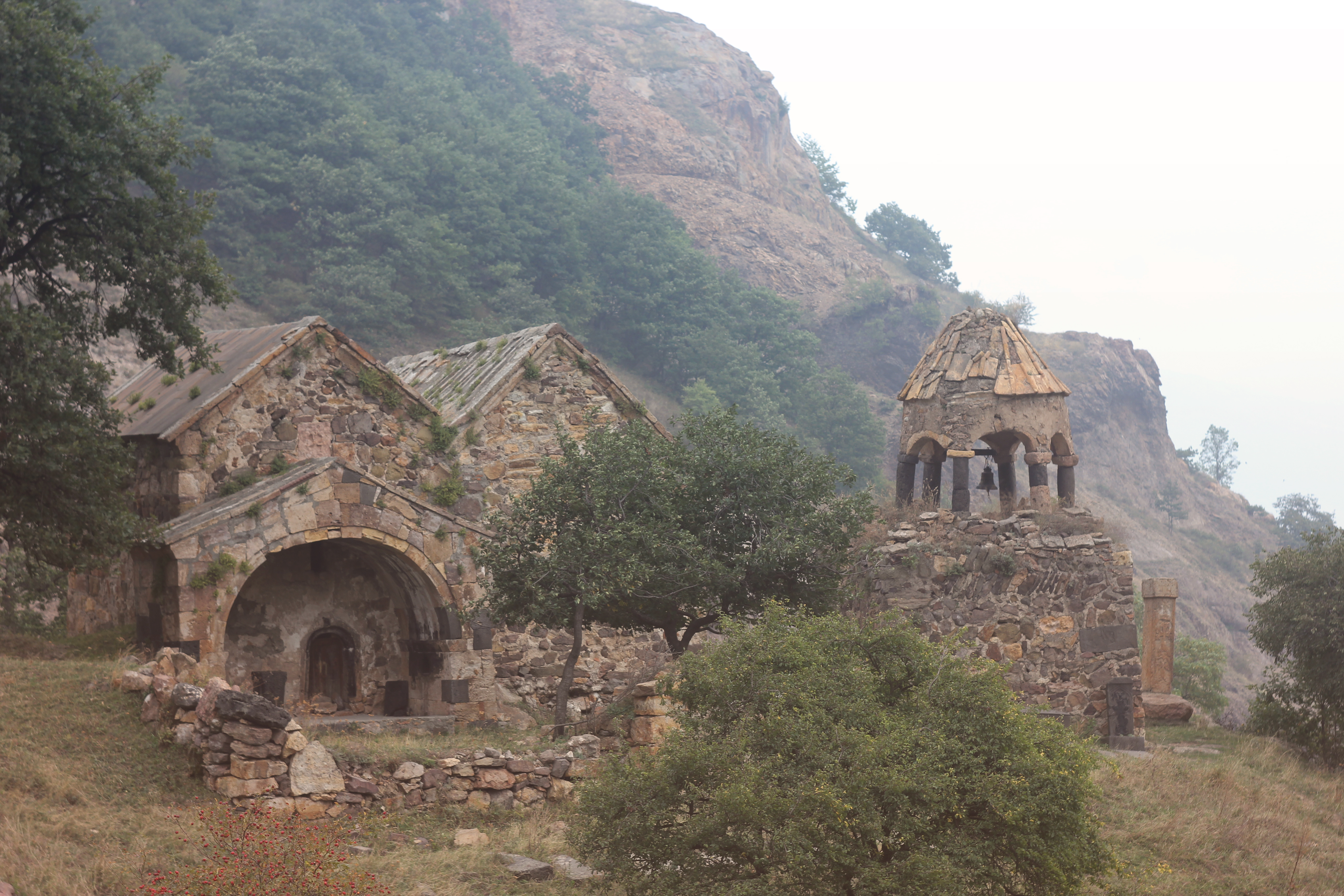 Ardvi monastery. 17/10